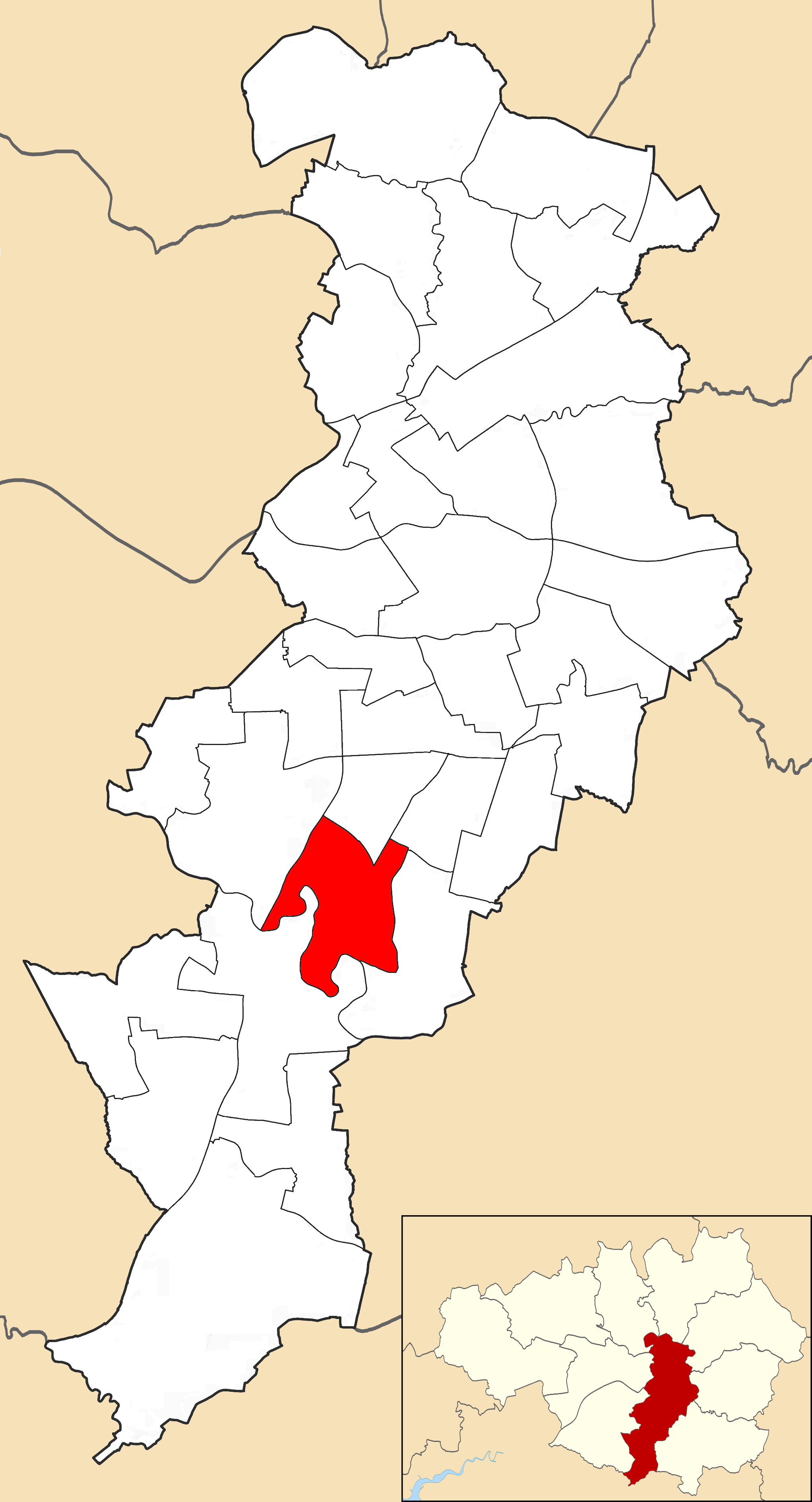 Map showing location of Didsbury West ward within Manchester City Council.